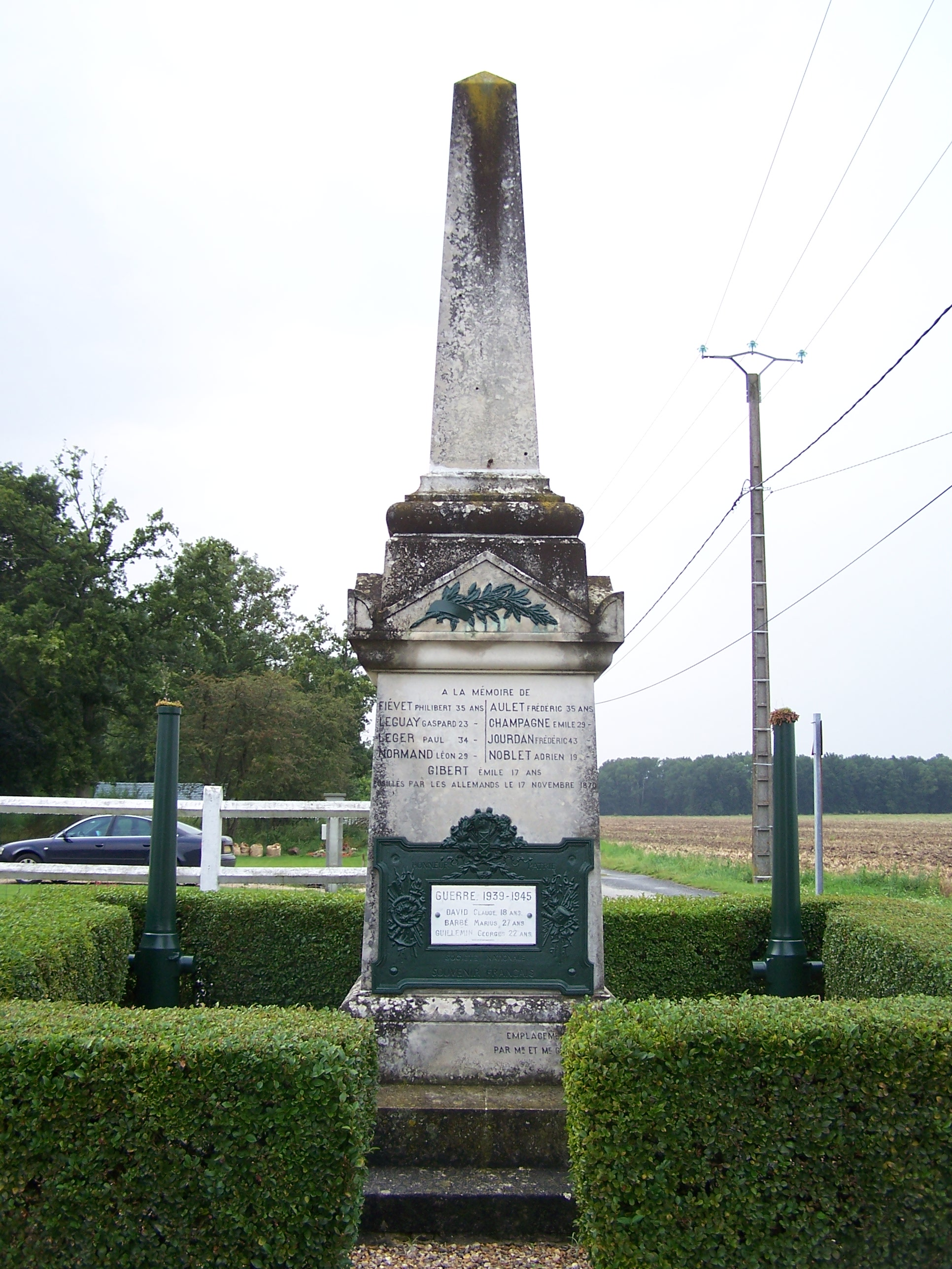 War memorial of Gressey (Yvelines, France)